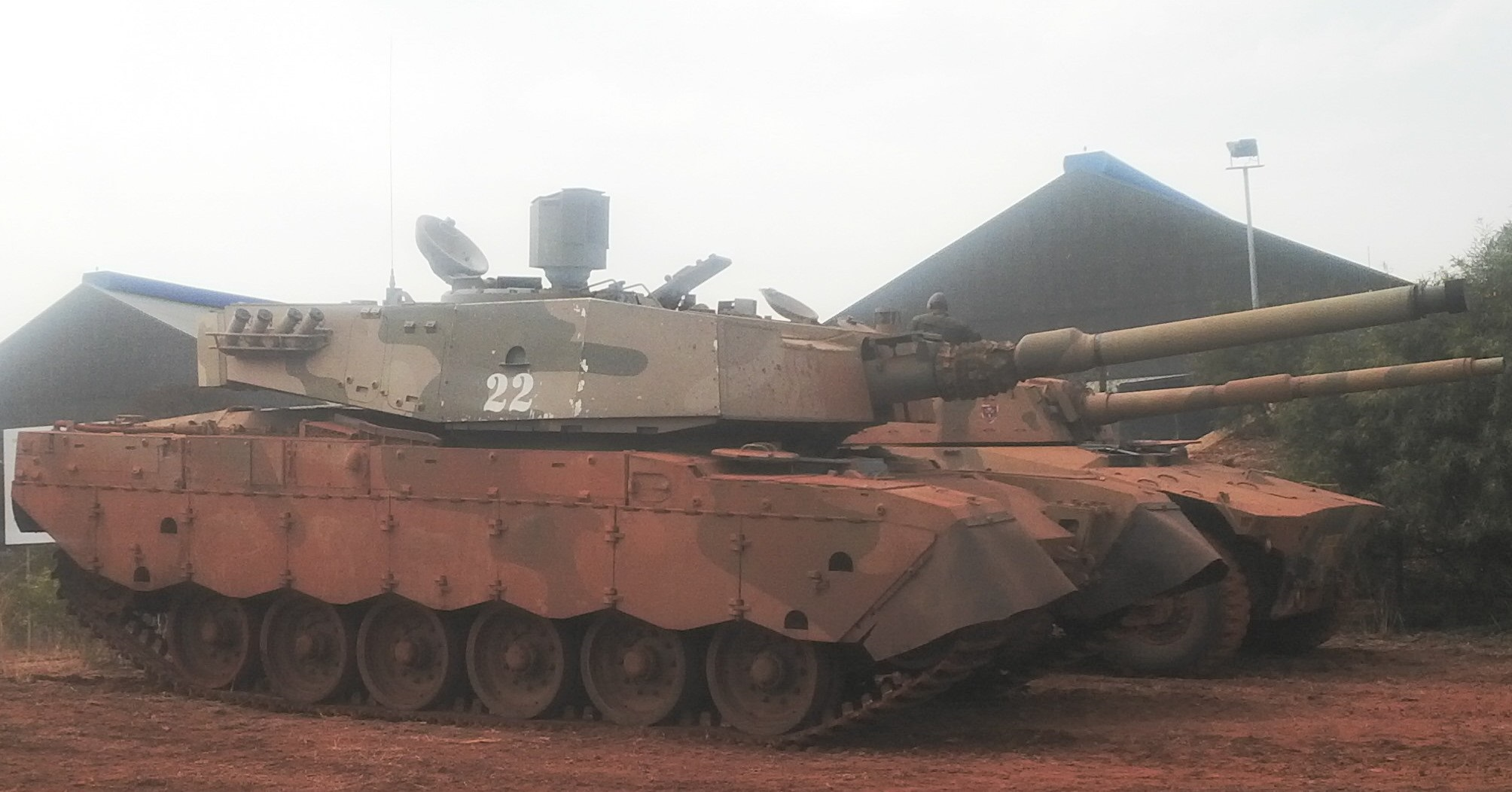 SANDF Oliphant mark 2 mbtank